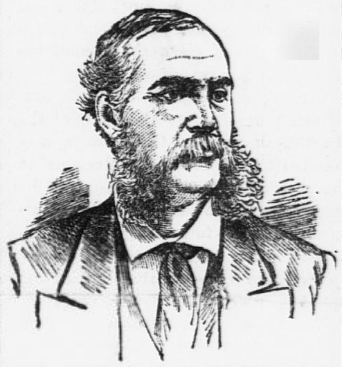 Sketch portrait of John F. Dezendorf